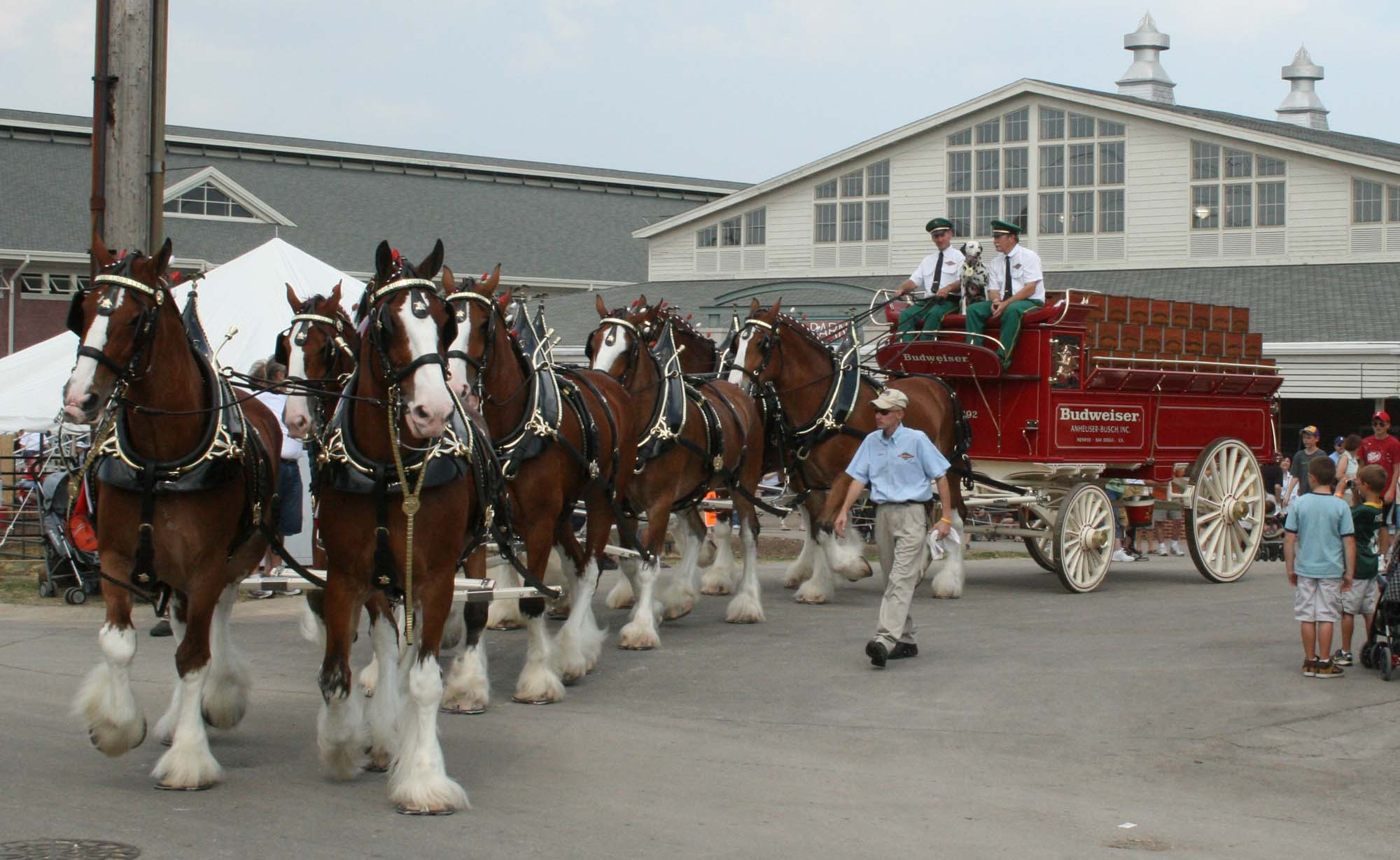 The eight-horse team of Clydesdales, pulling the Budweiser wagon. Taken at the Wisconsin State Fair.